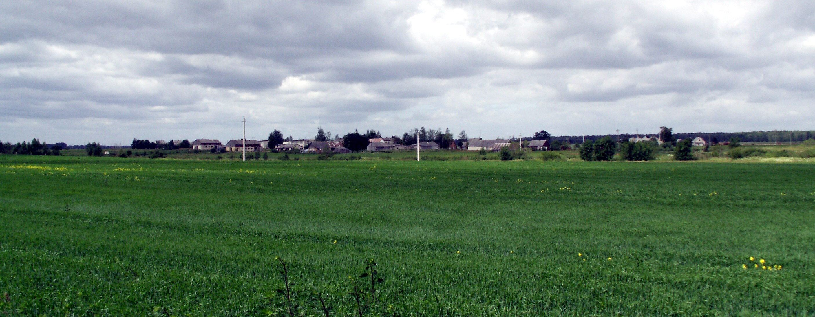 Eimučiai, Šiauliai district